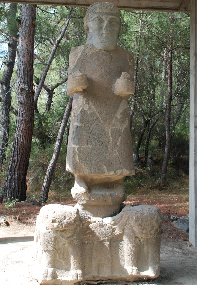 Weathergod in Karatepe